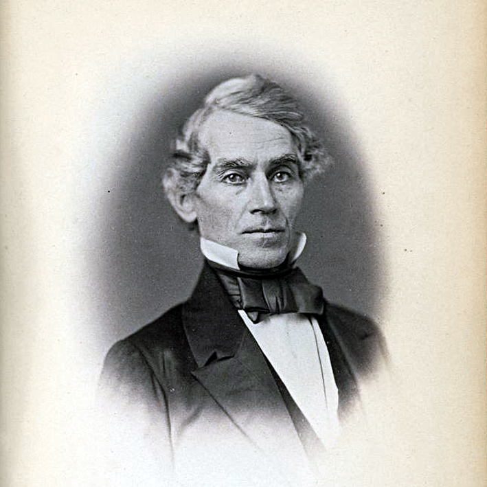 William Stewart, US Representative from Pennsylvania